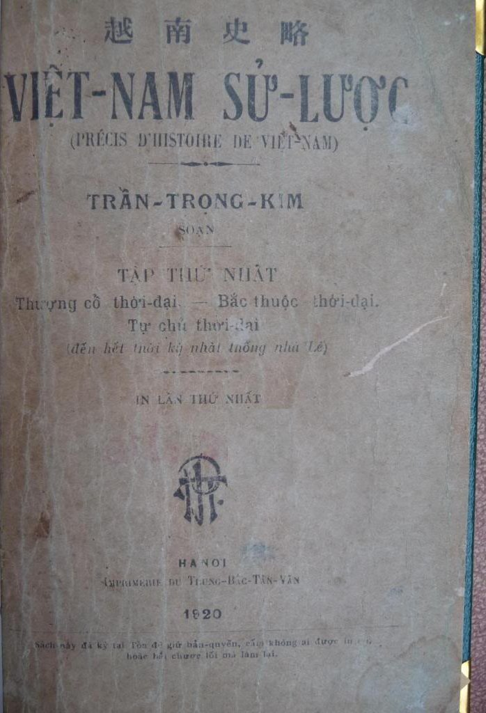 Cover of "Việt Nam sử lược" by Trần Trọng Kim, first edition, Trung Bắc Tân Văn, Hà Nội, 1920.